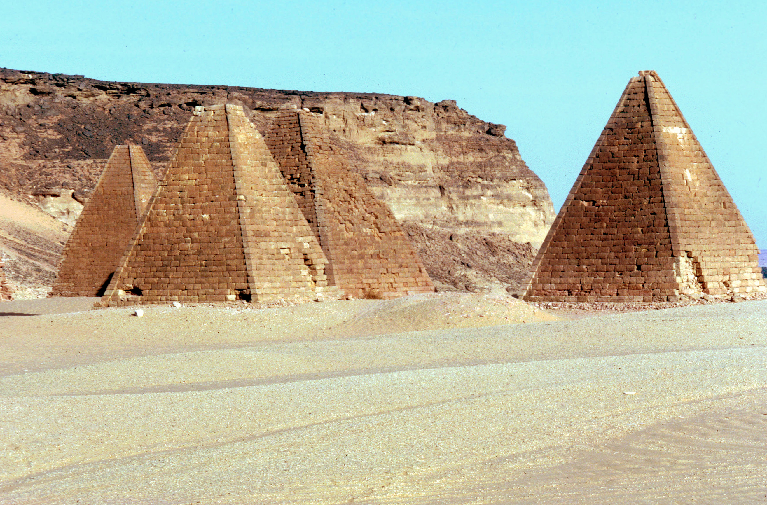 The Pyramids at the foot of Jebel Barkal, Karima, Sudan.